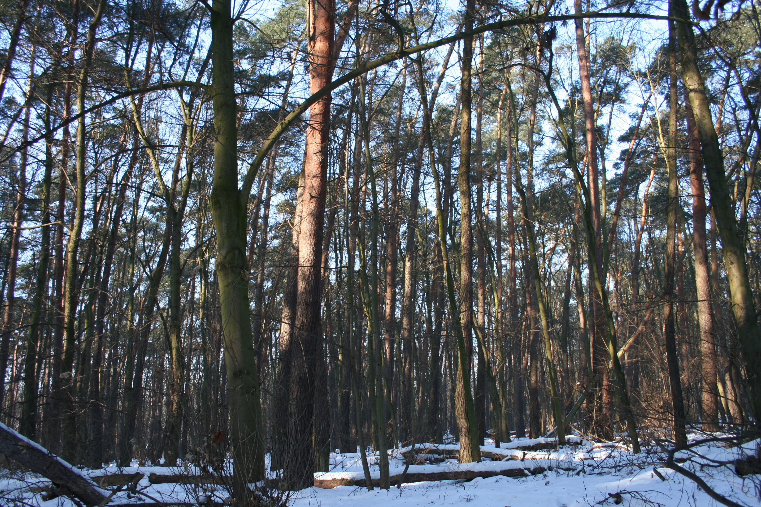 Temperate broadleaf and mixed forests with hornbeam and pine (Galio sylvatici-Carpinetum betuli) in Kolno Międzychodzkie nature reserve, in Poland.